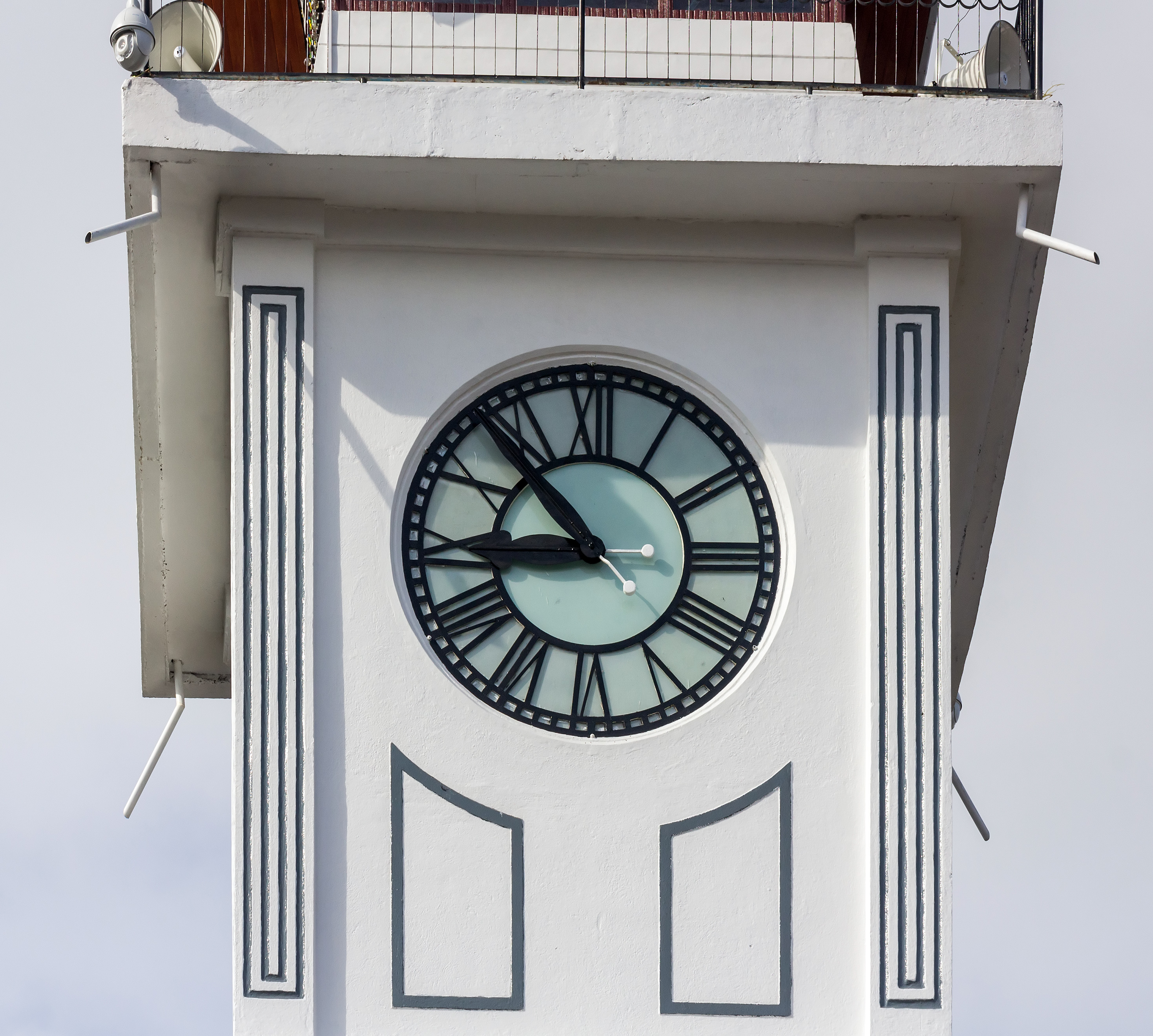 The Jam Gadang clock tower in Bukittinggi, West Sumatra